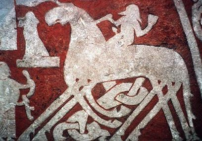 The Norse god Odin on his horse Sleipnir, featured on the Tjängvide image stone in Vallhalla. It also can depict a killed warrior on his way to Vallhalla greeted by Valkyries with horn goblet in their hands.